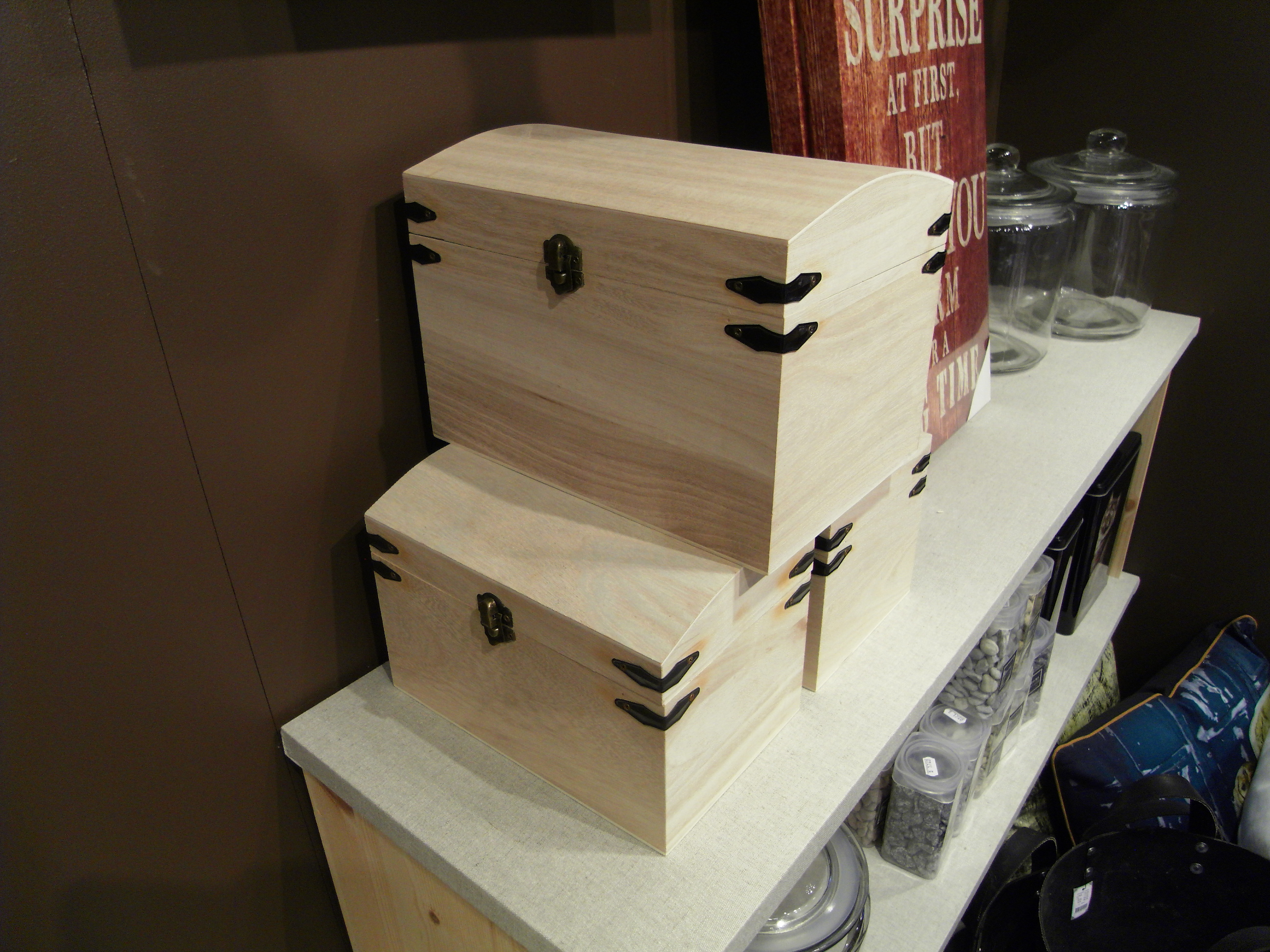 New wooden chests, which exist in various sizes, in the Søstrene Grene store at the shopping mall Mobilia in Malmo. The picture is photographed 20 November 2013.